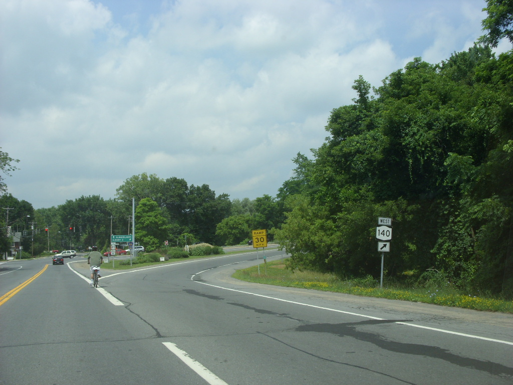 Westbound New York State Route 140 at Albany County's County Route 52 in the town of Bethlehem. Here, NY 140 splits from Kenmore Avenue to follow Cherry Avenue Extension, a four-lane divided highway bypassing Slingerlands.